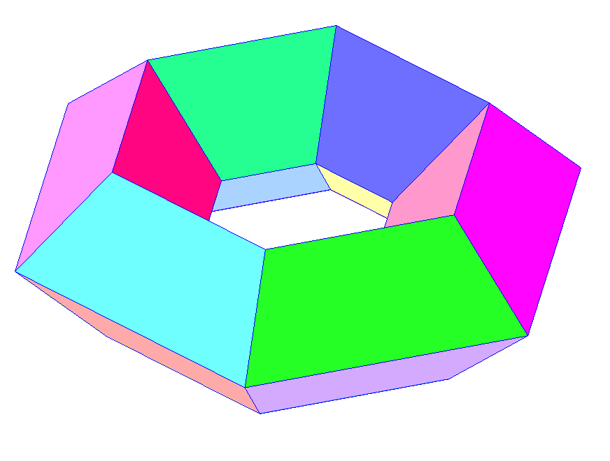 Toroidal polyhedron